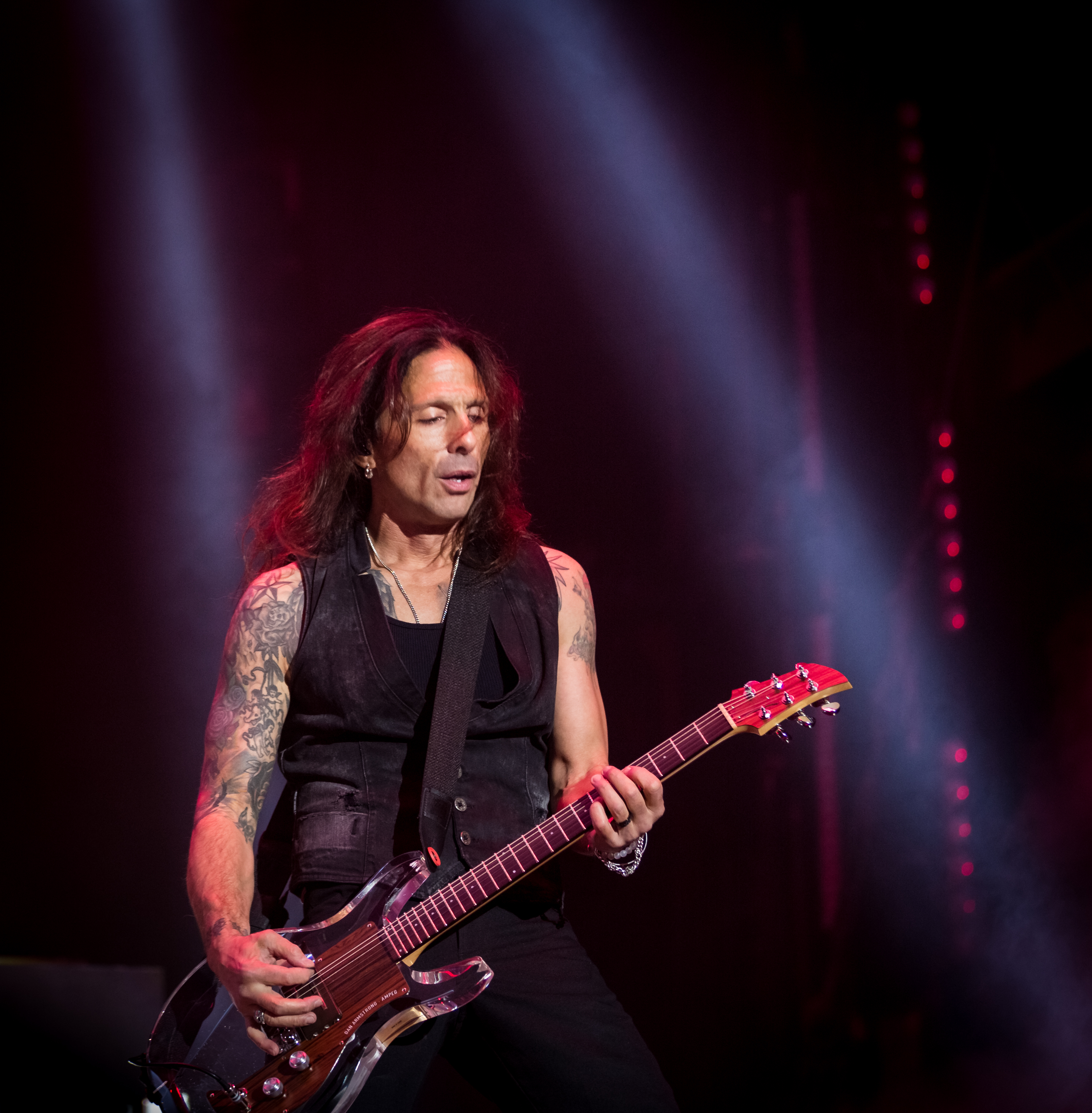 Savatage - Wacken Open Air 2015